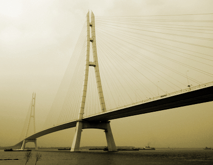 Third Nanjing Yangtze Bridge over the Yangtze river